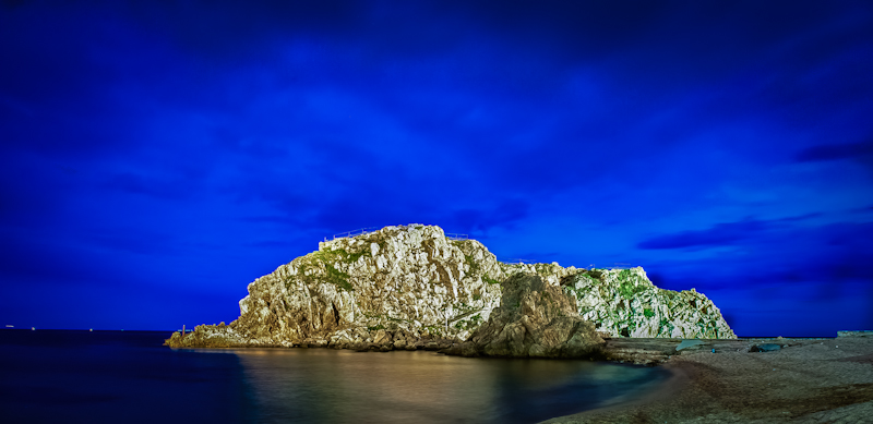 Rock located in Blanes, Catalonia, Spain.